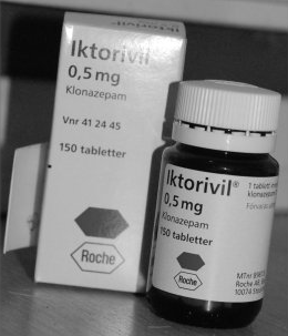 A bottle of branded clonazepam